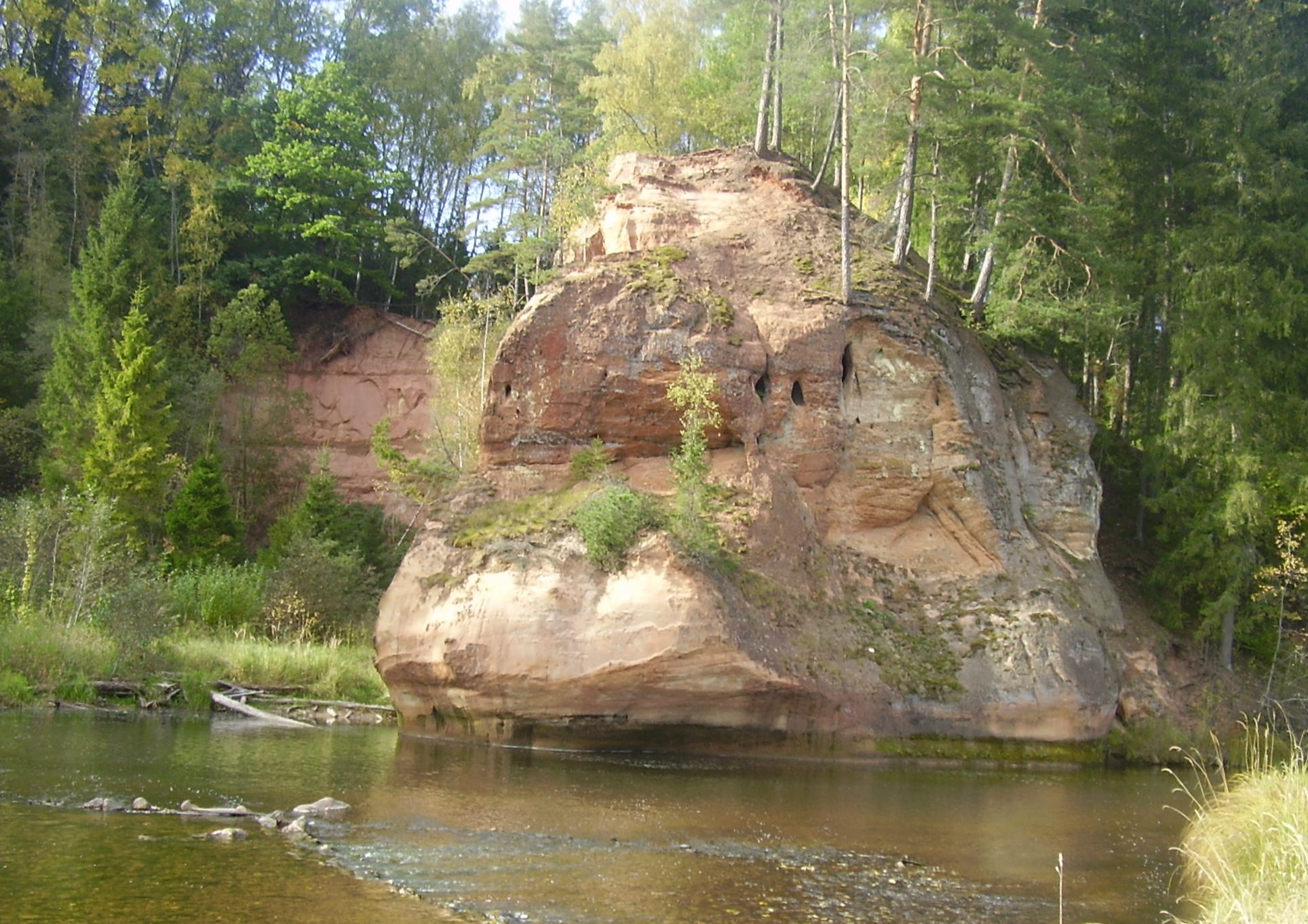 Famous Zvārtes rock in Amata, Latvia. The summer of 2008